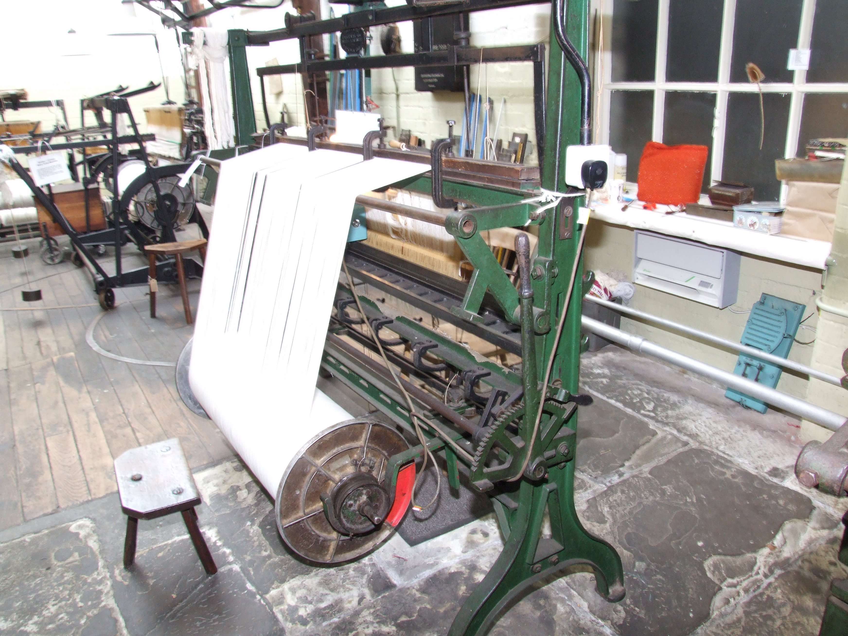 Queen Street Mill in Harle Syke, a suburb to the north-east of Burnley, Lancashire, was built in 1894 for the Queen Street Manufacturing Company. It closed on 12 March 1982 and was mothballed, but was subsequently taken over by Burnley Borough Council and used as a museum. In the 1990s ownership passed to Lancashire Museums. Unique in being the world's only surviving steam-driven weaving shed.